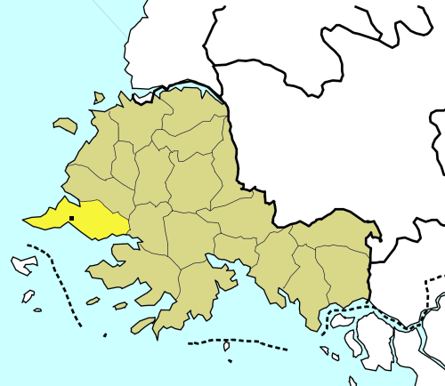 A map of South Hwanghae Province, North Korea, showing the location of Ryongyong County and Ryongyong-up. Existing maps on Commons used as source of coastline & administrative boundary information.